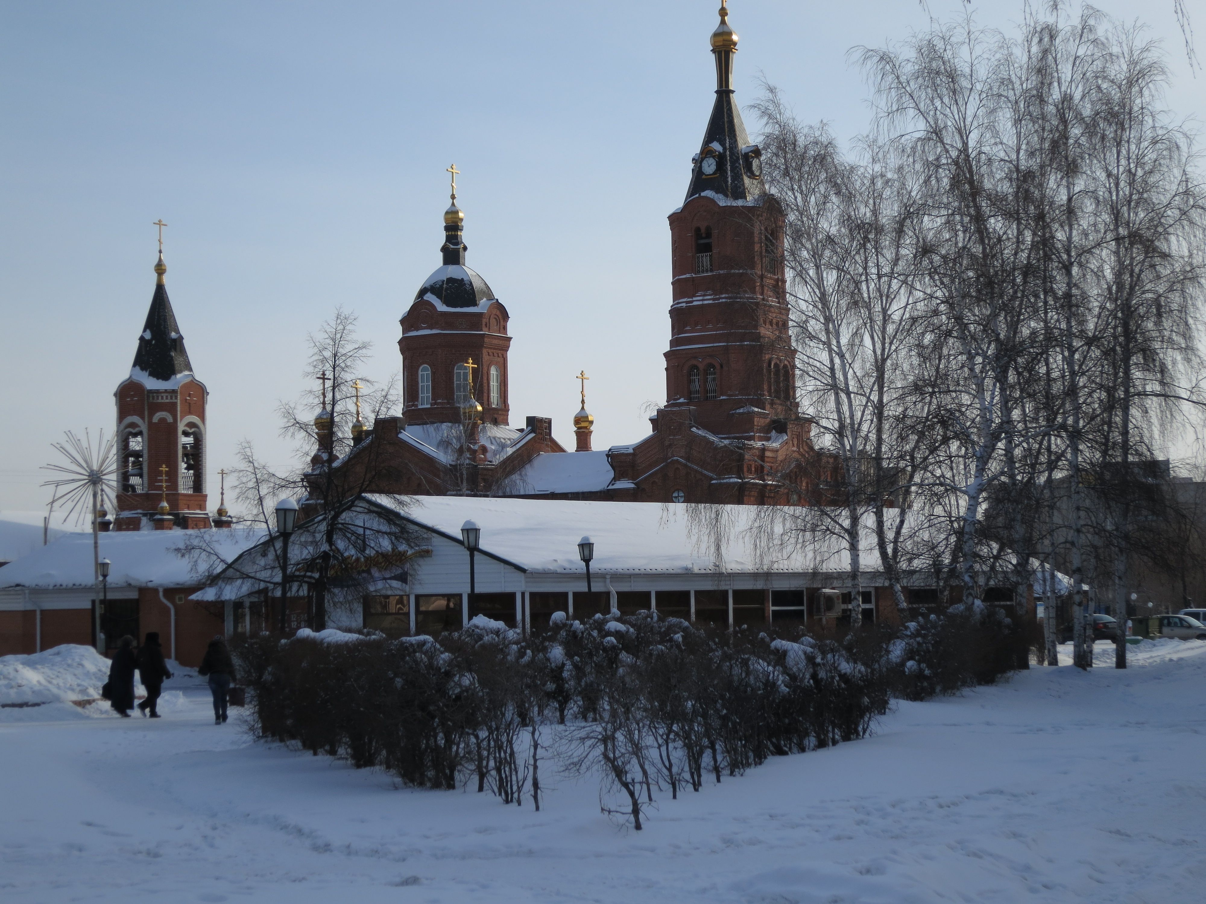 Kurgan town